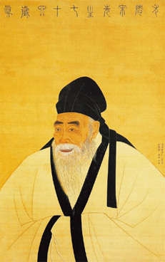 Korea-Portrait of Song Si-yeol(1607 ~ 1689)